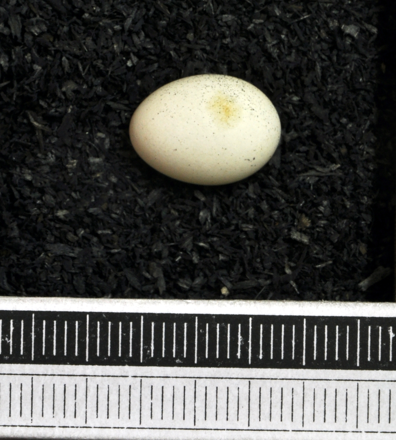 Indian silverbill Euodice malabarica , egg, Coll. Museum Wiesbaden